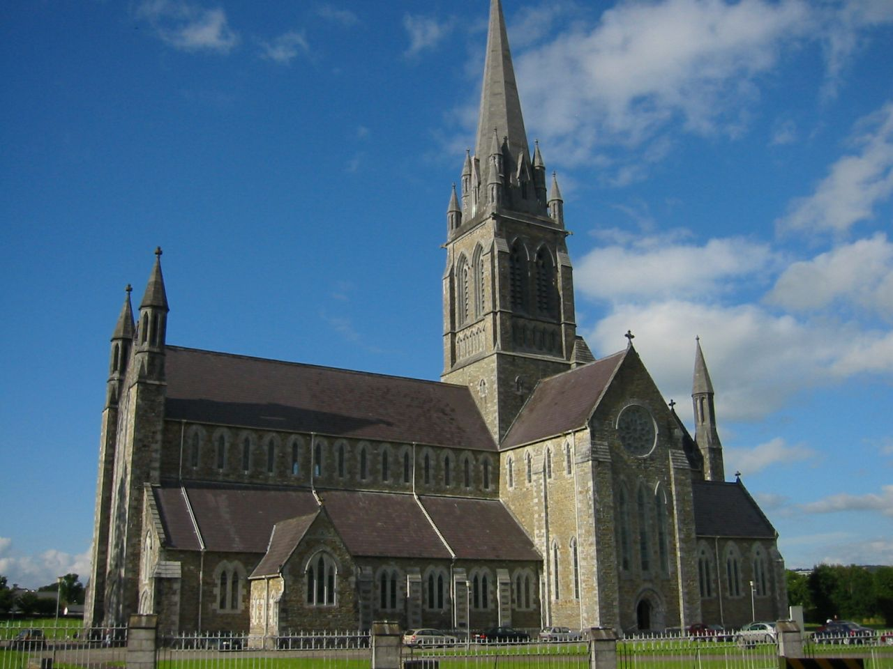 Church of Killarney